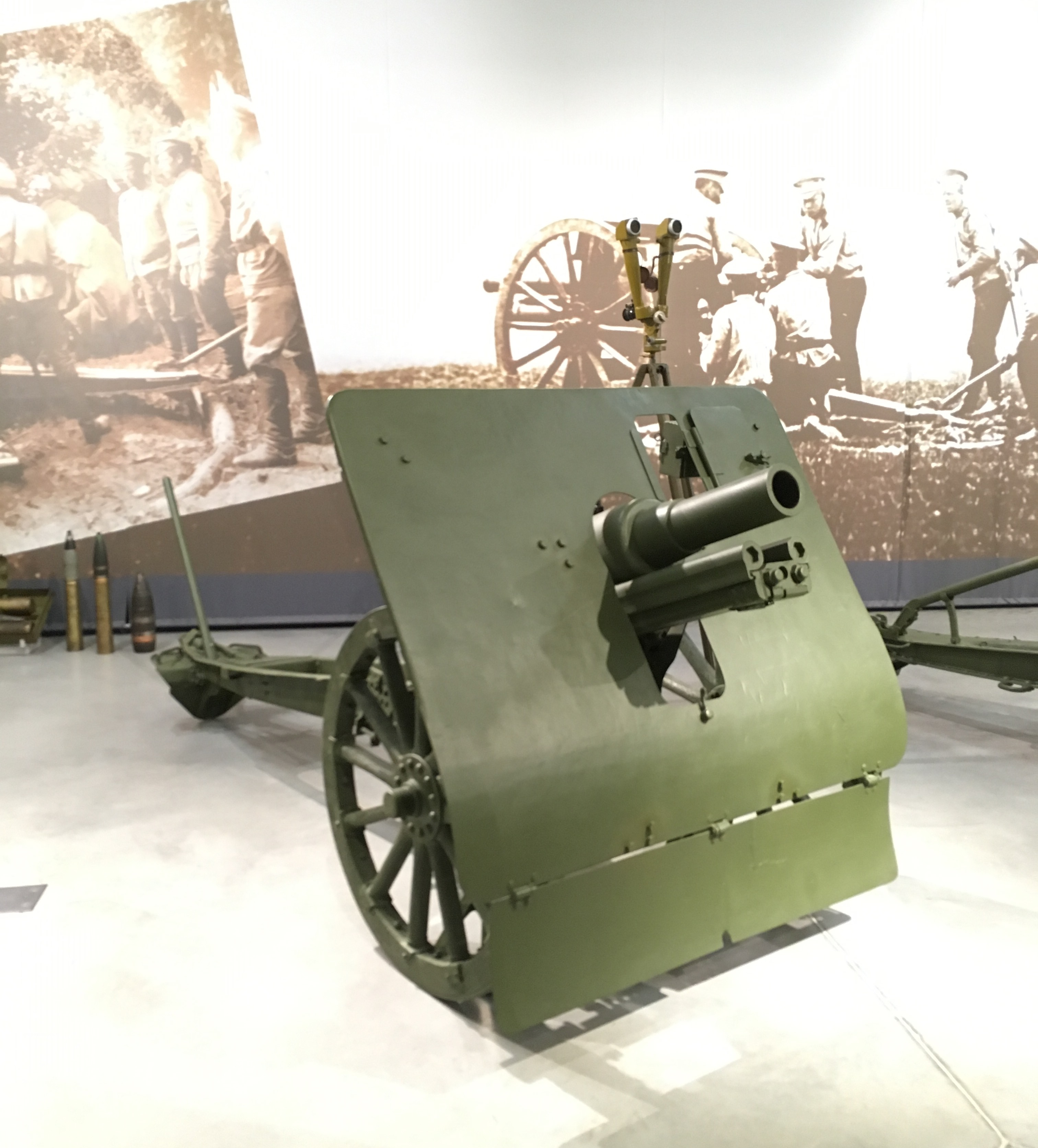 3-in (76mm) Russian "Short" Canon M1913.